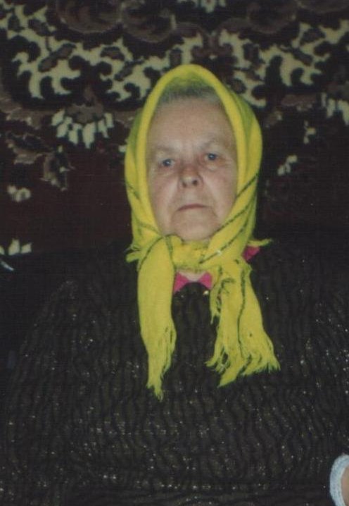 Уманчук Надія Олексіївна 1928 р.н.